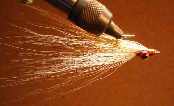 2 Brown, Gold and White Clouser Deep Minnow